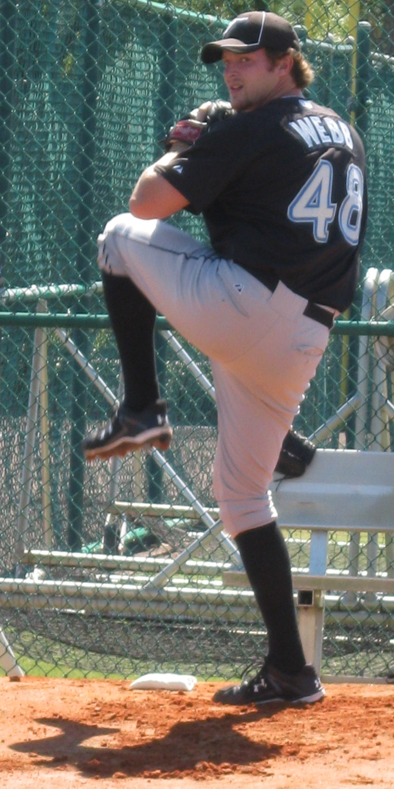 Daniel Webb